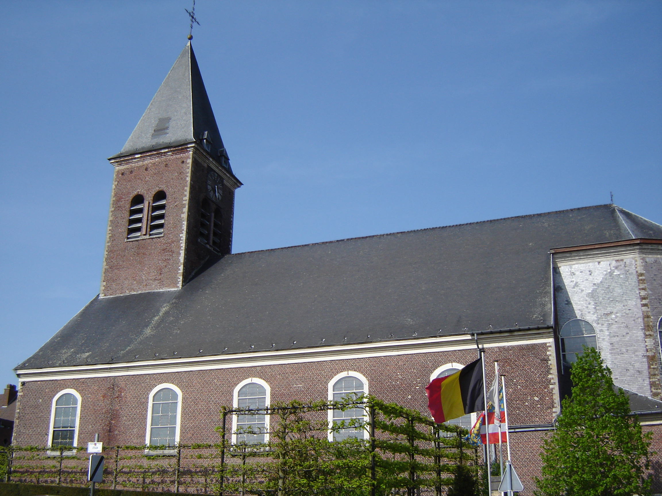 Church of Saint Amand and Saint Anne in Otegem. Otegem, Zwevegem, West Flanders, Belgium